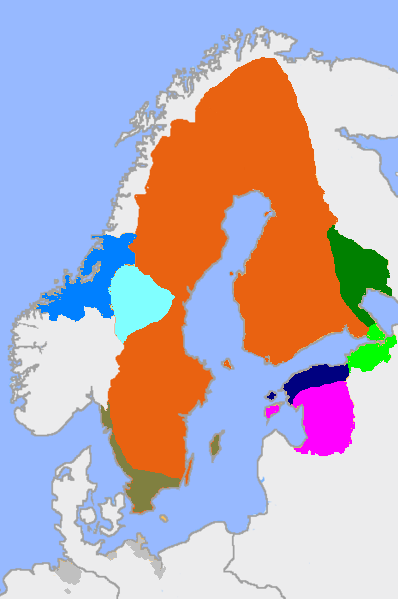 Sweden in 1658. The actual main part of the realm and the dominions in different colours. Key 00 Sweden Proper 00 Kexholm County 00 Ingermanland 00 Estonia 00 Livonia 00 German dominions 00 Scania, Gotland, Bohuslän 00 Trondheim 00 Jämtland County The borders toward Russia and Norway in Lapland are actually undefined, but drawn to approximate the area of Swedish influence.